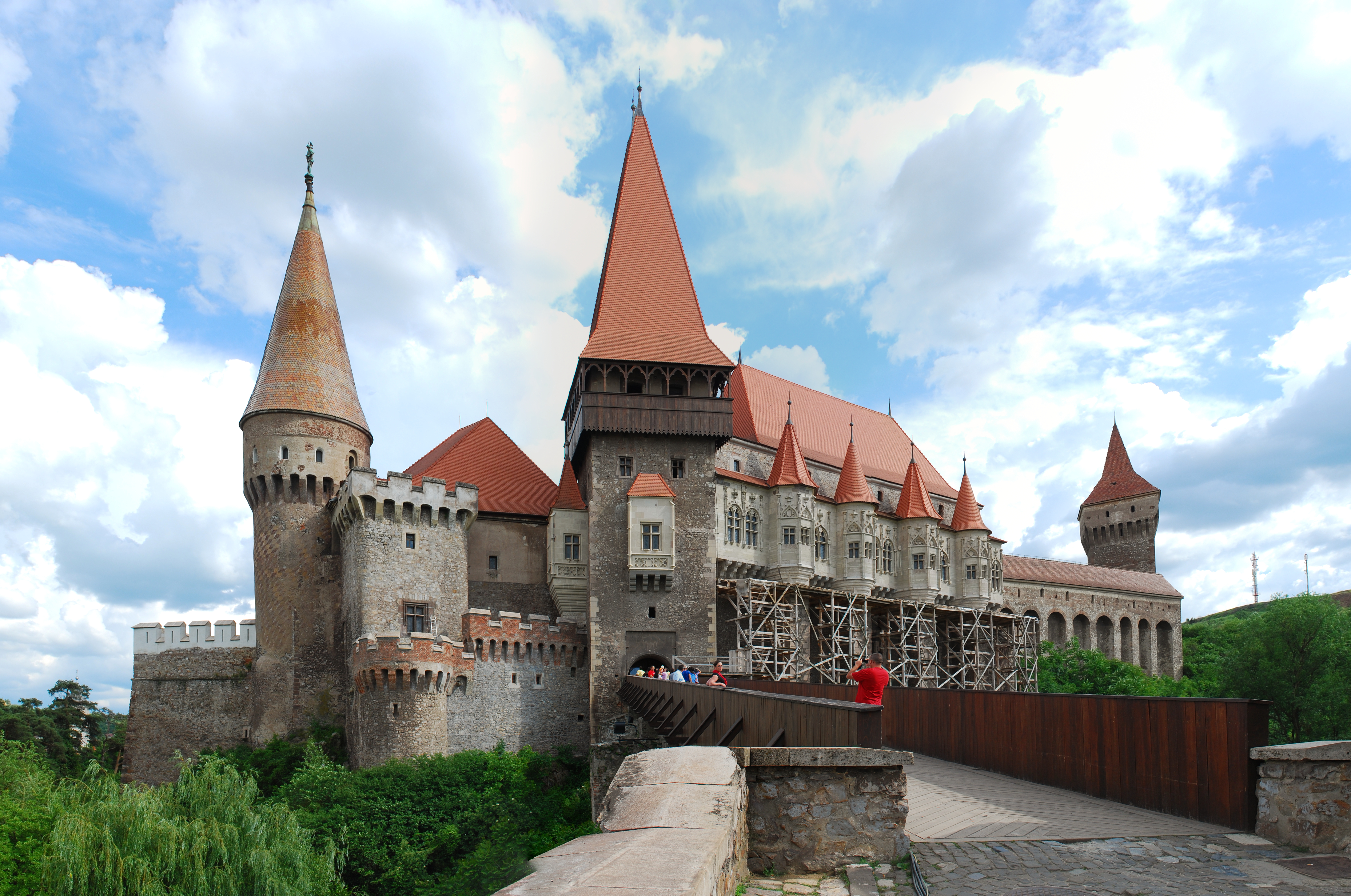 Stitched image of the Corvin castle in Hunedoara, RomaniaRomână: Castelul Corvinilor din Hunedoara